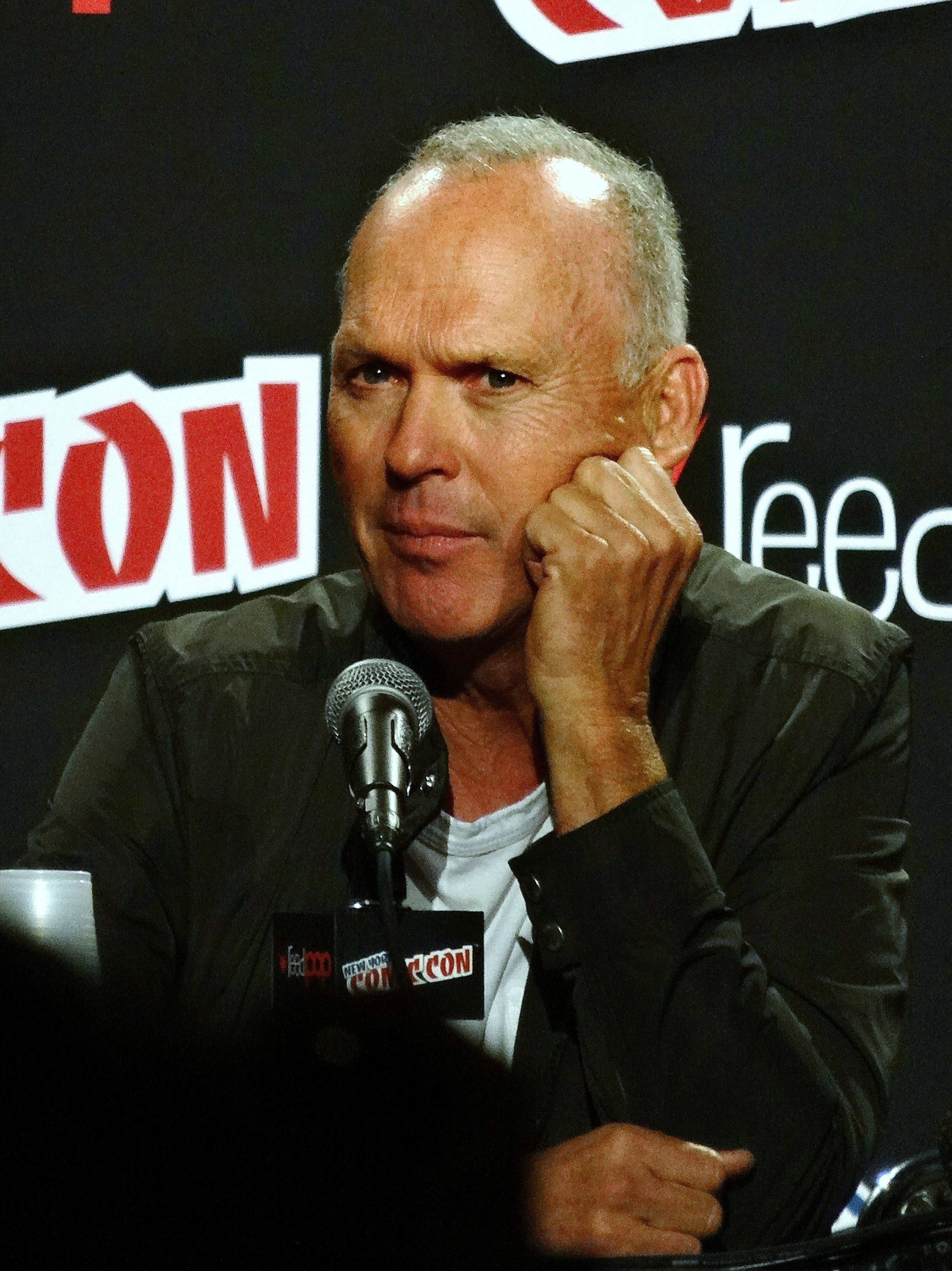 Actor Michael Keaton at NYCC in 2014.